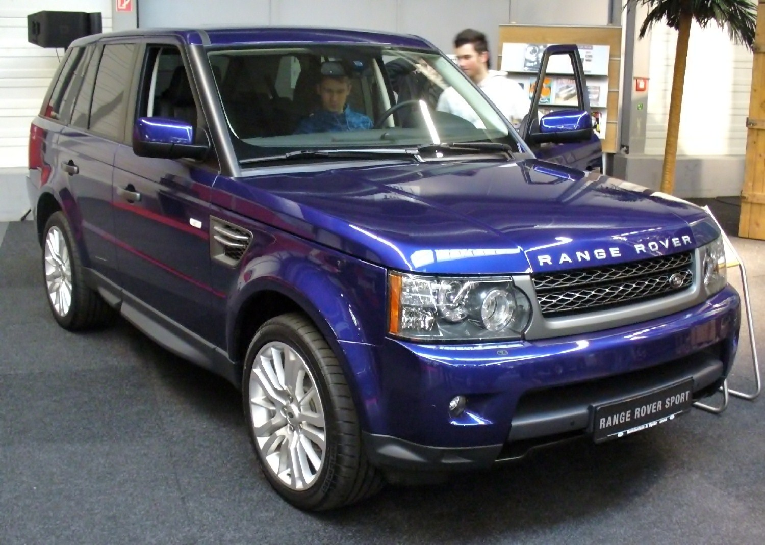 Range Rover Sport Facelift